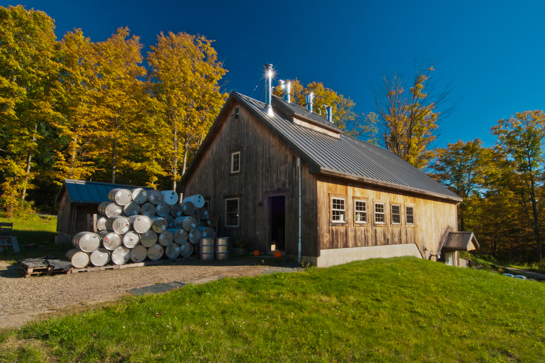 A maple syrup producer in Vermont. USDA photo by Bob Nichols.